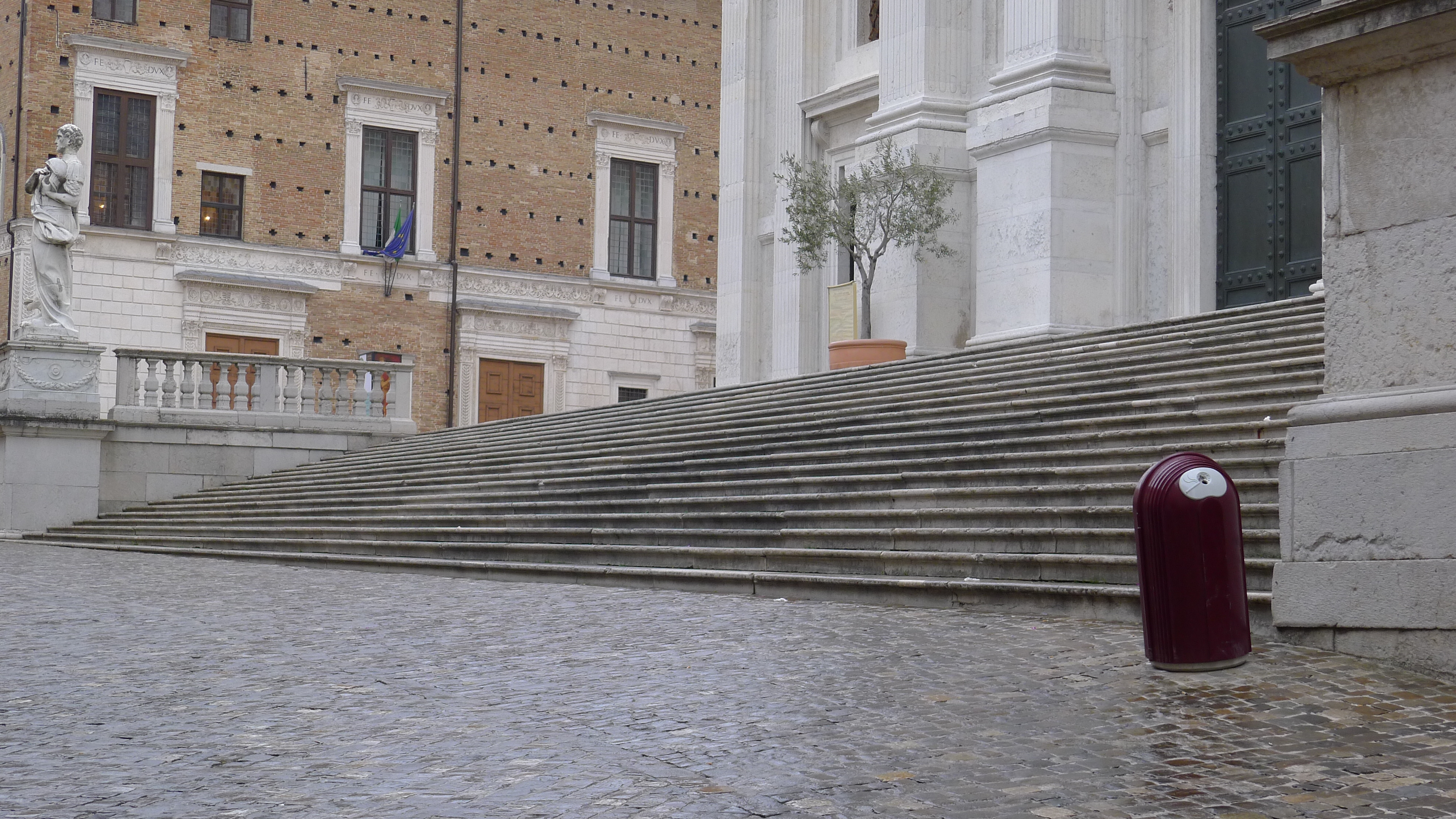 The variable rise stairway in front of The Duomo or Cathedral, next to The Ducal Palace in Urbino, region Marche in Italy. As seen from below (coming up the street), the stairway would appear wider than it is, since the lines of the decreasing rise of the stairs visually compress the stair's "horizon" (pushing it away from the observer). Observe the size of the left and right sides' walls, how the architect has indicated the horizontal levels (top and bottom of left side correspond to top and "middle" of right side).